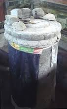 Sebuah Prasasti